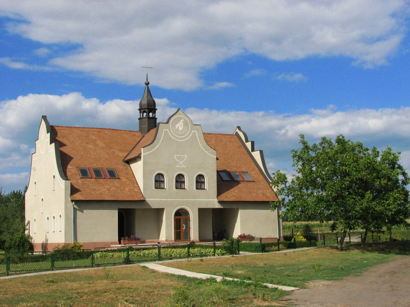 The Bethlehem Chapel at Bohemka, Ukraine